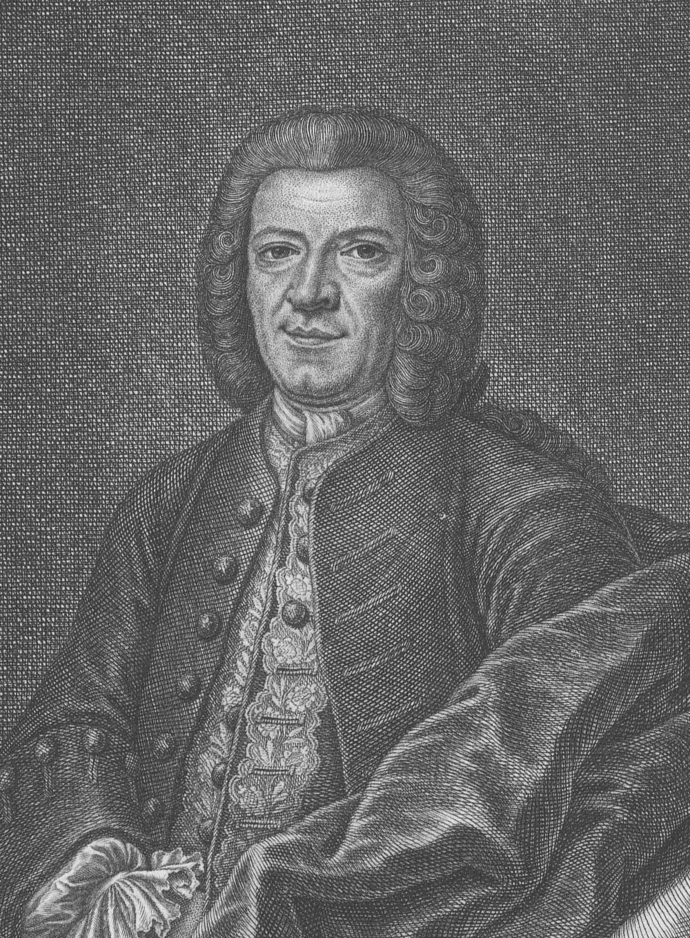 Johann Christoph von Dreyhaupt (1699–1768), German lawyer, clerk and historian; Salzgraf in Halle (Saale); copper engraving